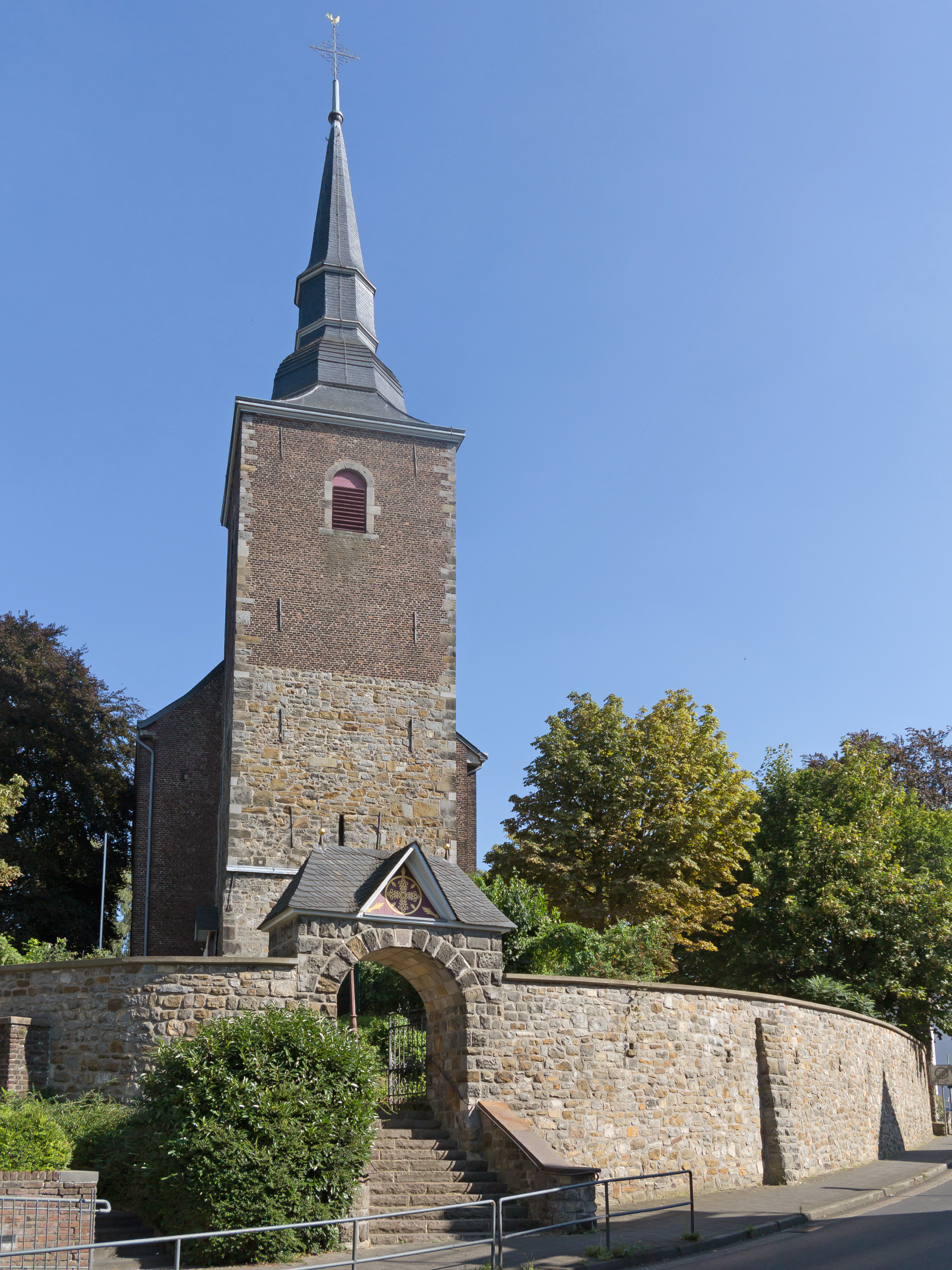 Merkstein, church - Pfarrkirche Sankt WillibrordThis is a photograph of an architectural monument., no. 000115 - 01